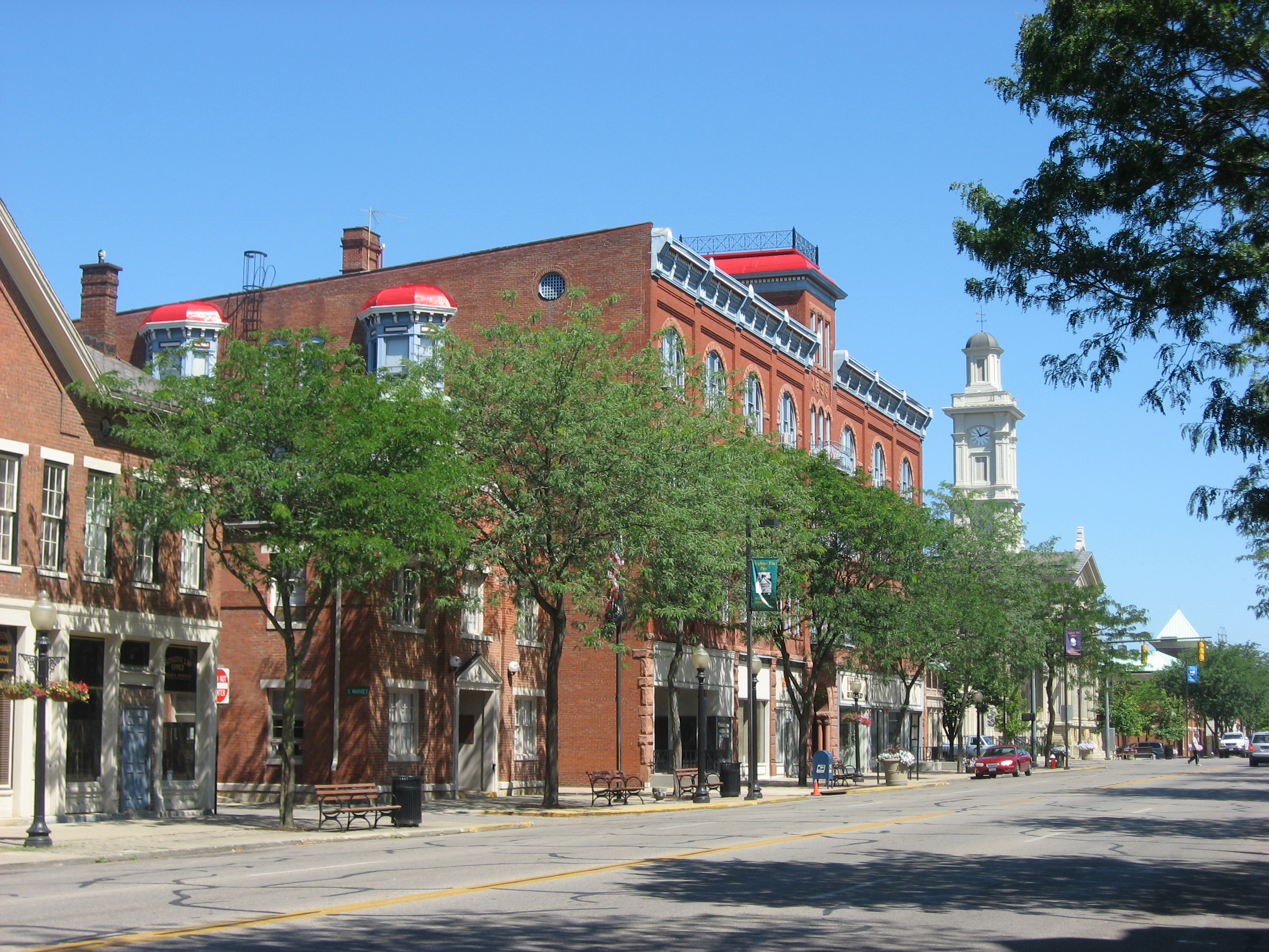 Buildings on the western side of the first block of S. Paint St. (State Route 772) in downtown Chillicothe, Ohio, United States. Among the buildings visible are a large business block built in 1896 (middle) and the tower of the Ross County Courthouse (right side). These buildings are part of the Chillicothe Business District, a historic district that is listed on the National Register of Historic Places.